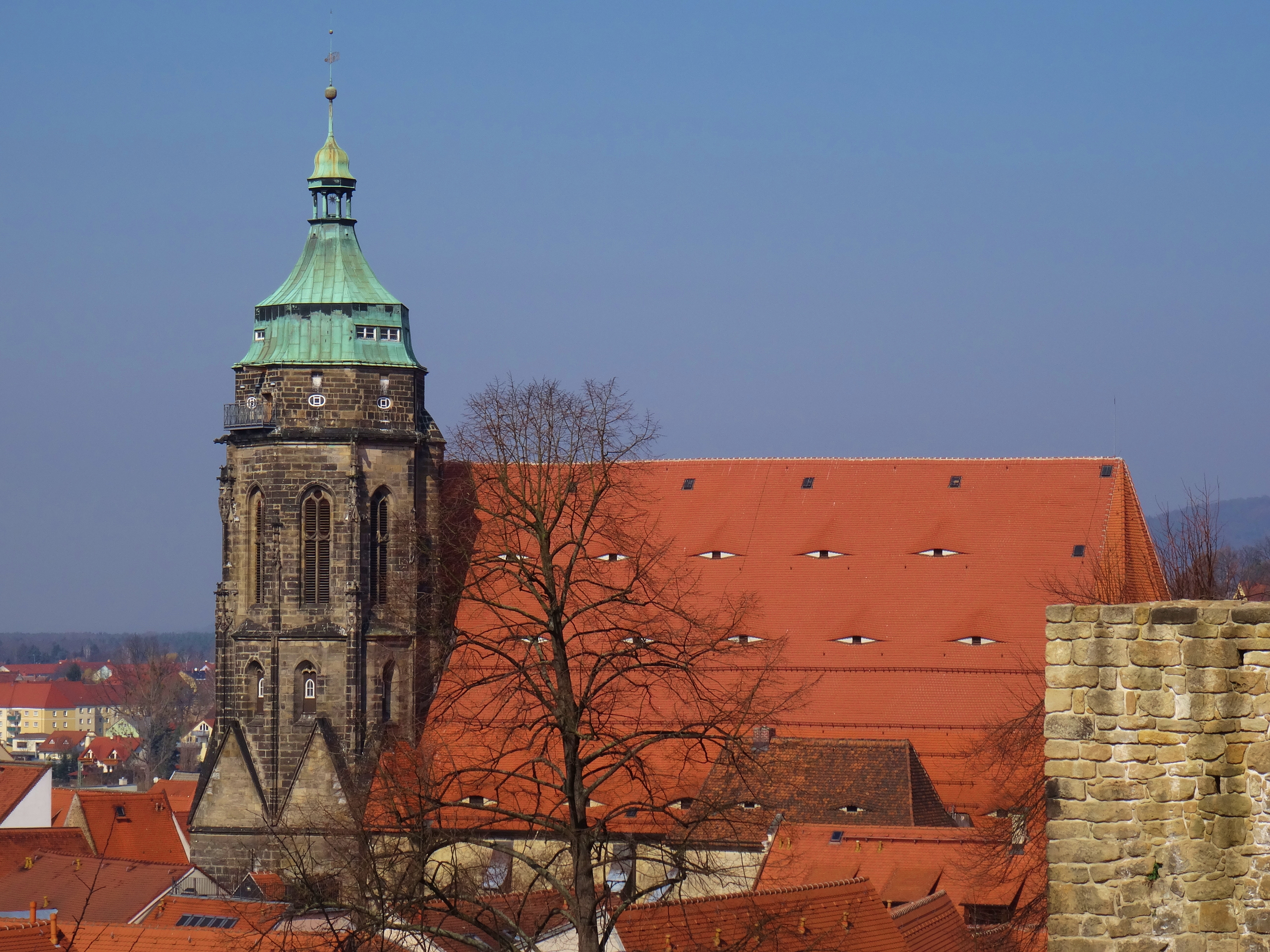 The Human rights memorial Castle-Fortress Sonnenstein in Pirna's old-town.